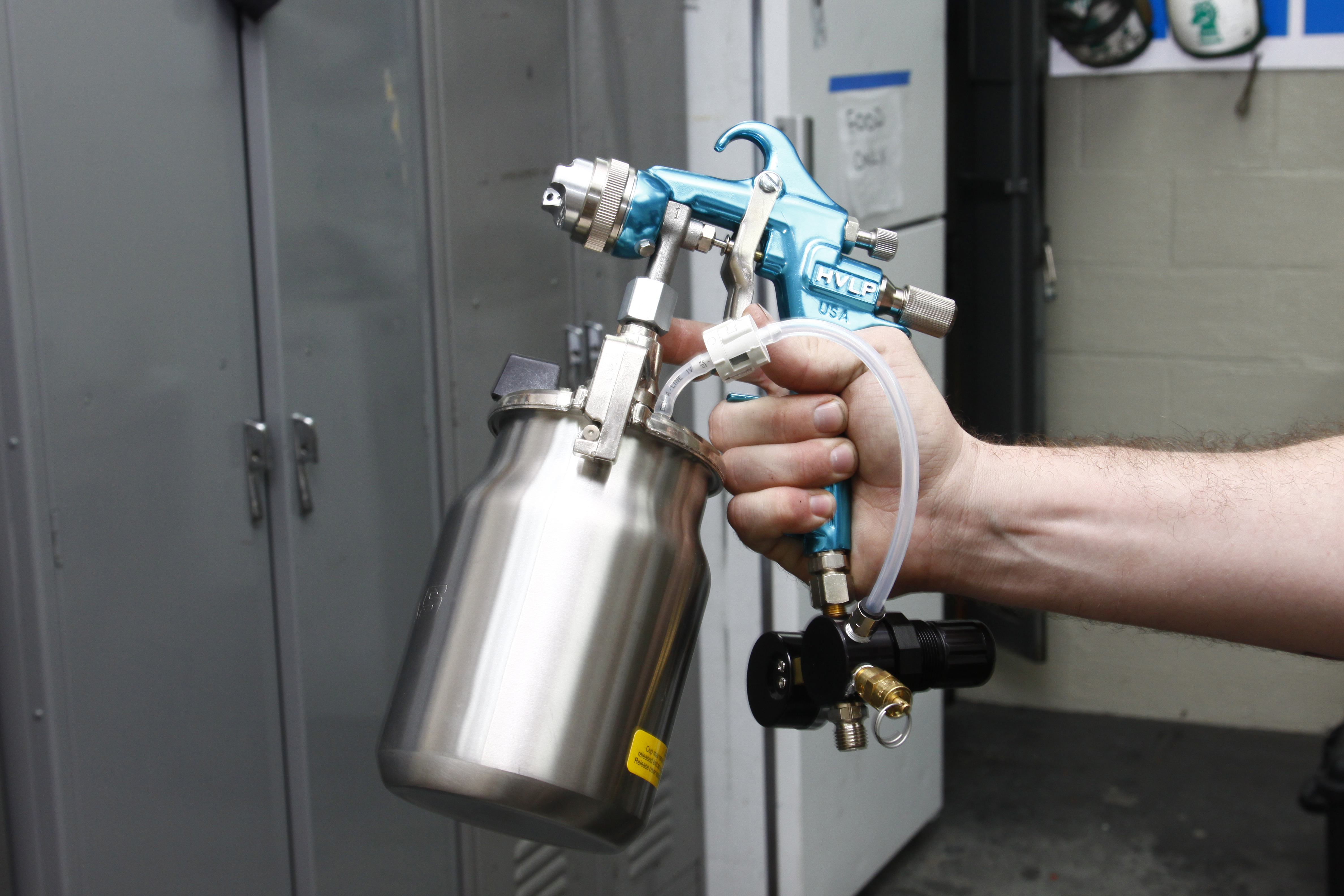 A High Volume Low Pressure spray gun was used to paint the Marine All-Weather Fighter Attack Squadron 121 multimillion dollar flag plane. Typically, aircraft are painted every couple of years according to the Marines with corrosion control.